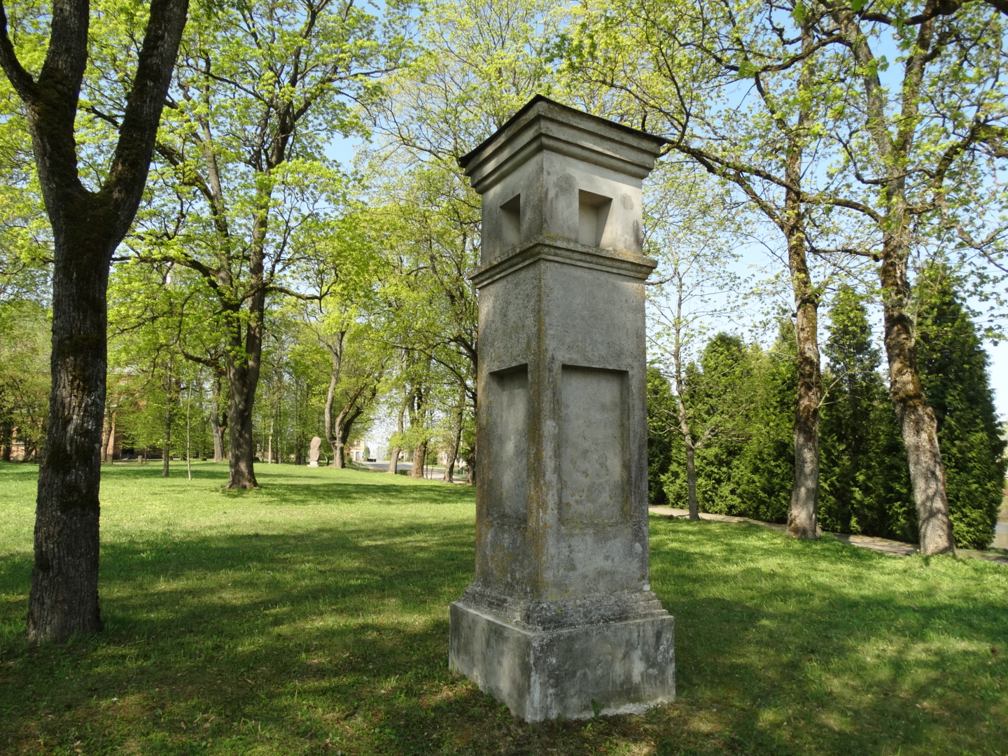 Park near the church in Krakės, Kėdainiai district, Lithuania